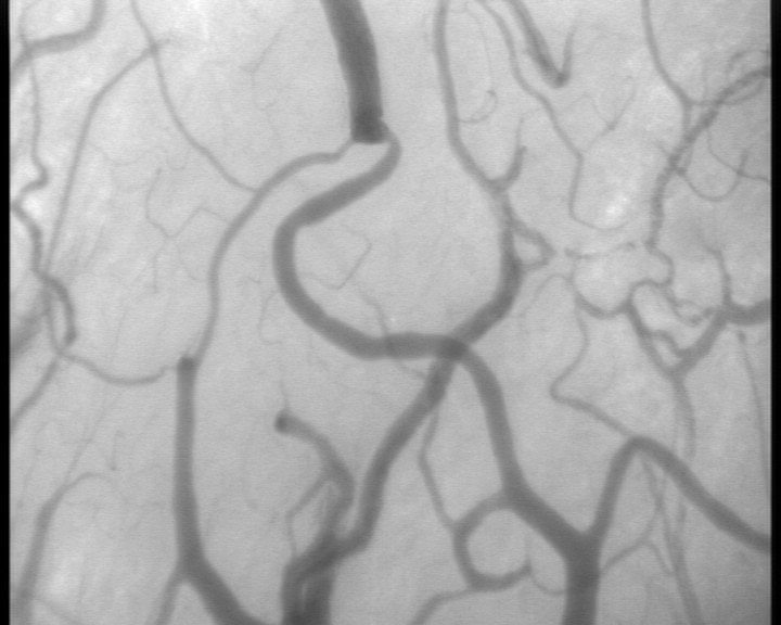 Blood vessels imaged with sidestream dark field imaging. Original figure legend: "Digital photomicrographs of the cerebral cortical microcirculation of a septic animal at baseline."